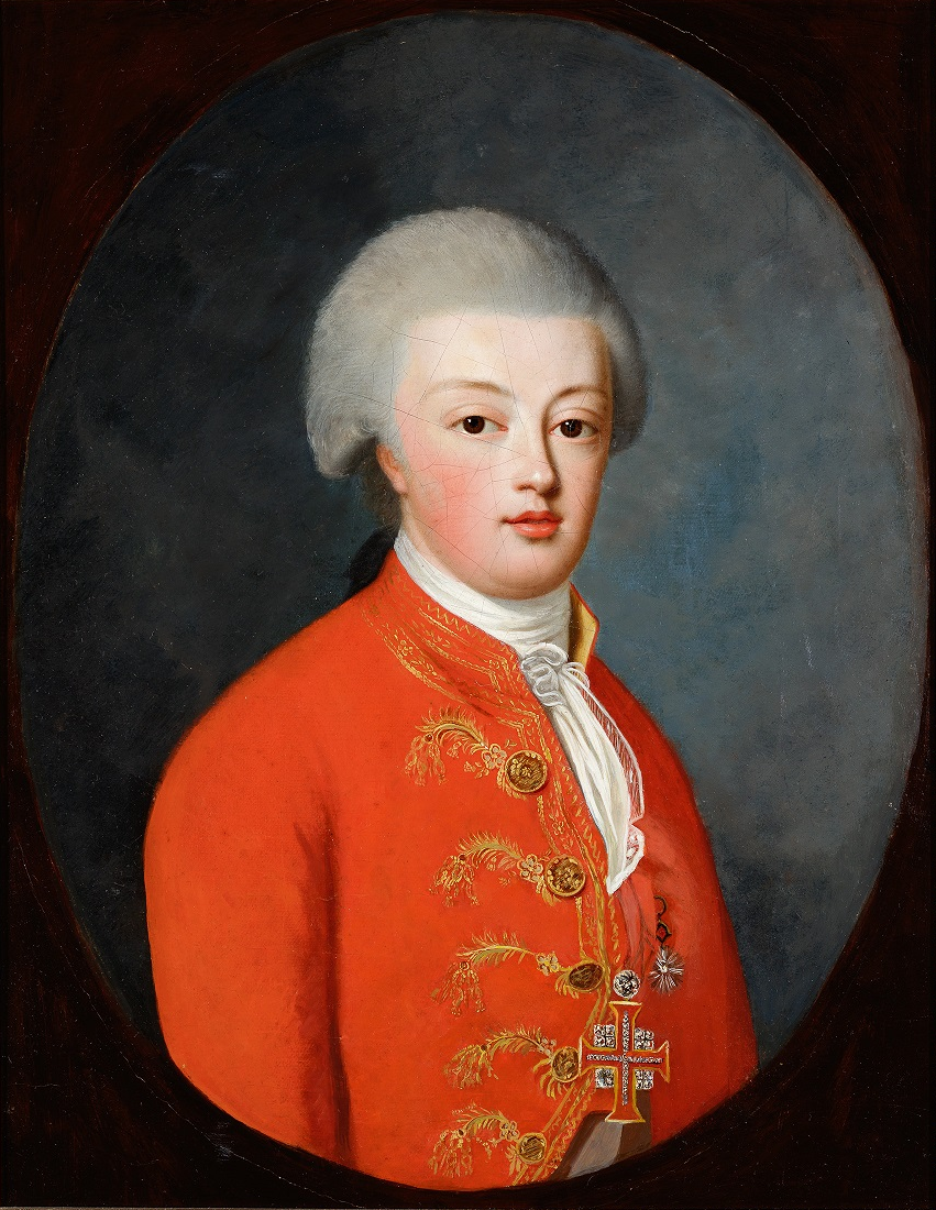 A young John VI of Portugal (1767-1826)